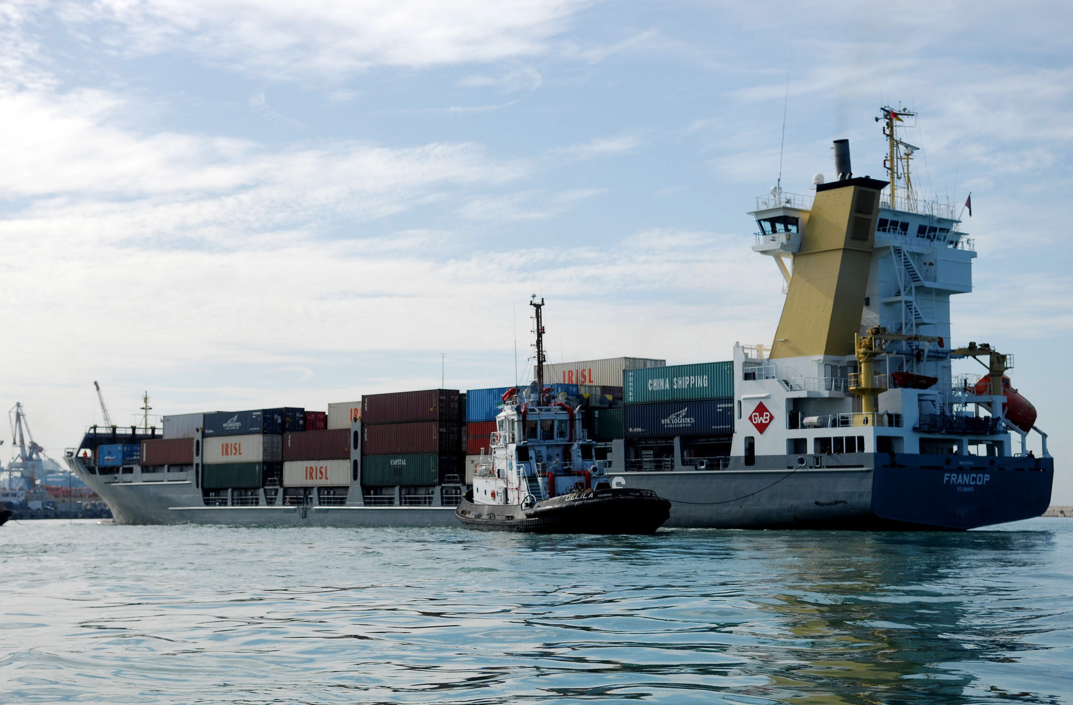 November 4, 2009 Israel Navy forces stopped the cargo ship "Francop" and found missiles, rockets and other weaponry. The ship was brought to the Ashdod port for inspection. Pictured here: IDF soldiers boarding the "Francop" cargo ship.